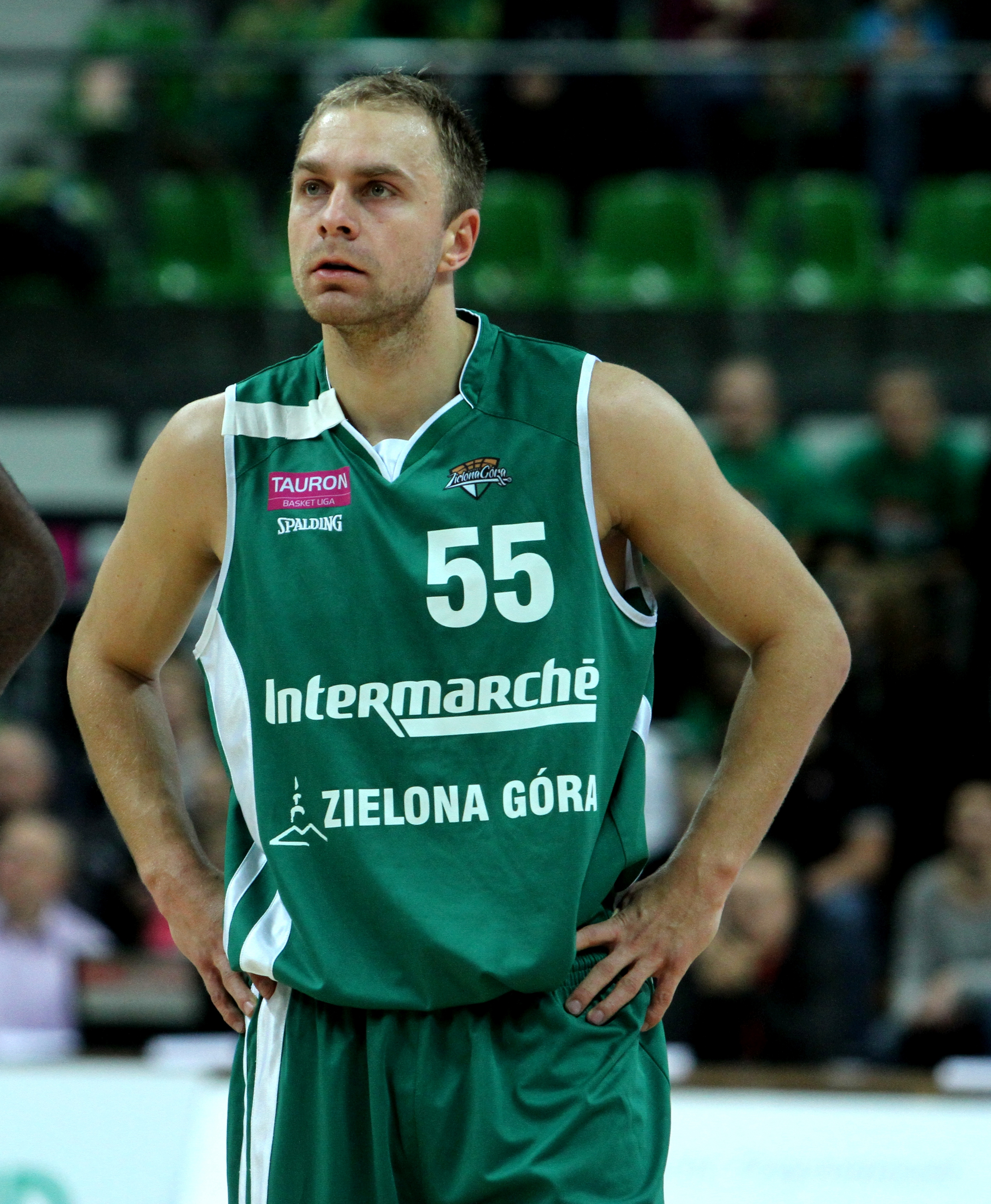 Lukasz Koszarek, while playing for Zielona Gora.